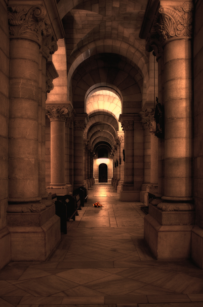 Cripta de la Catedral de la Almudena. Madrid. // Crypt of Cathedral of the Almudena. Madrid. Spain.